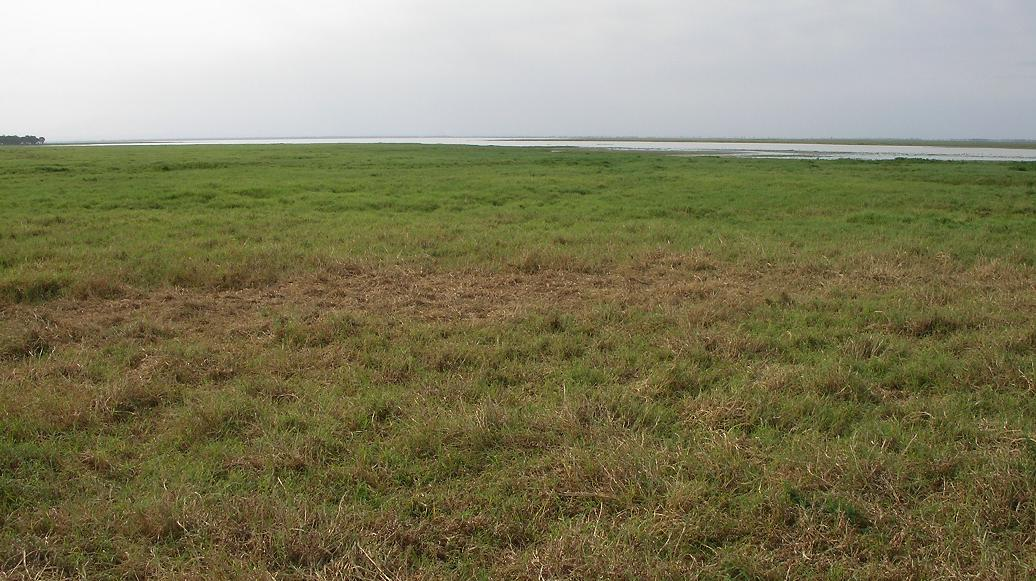 Lake Urema in the dry season, viewed from the southeast, in Gorongosa National Park, Mozambique.